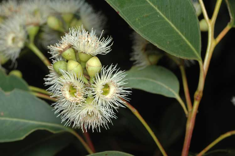 Flowers and flower buds of Eucalyptus paniculata in the Mount Annan Botanic Gardens, Campbelltown, New South Wales